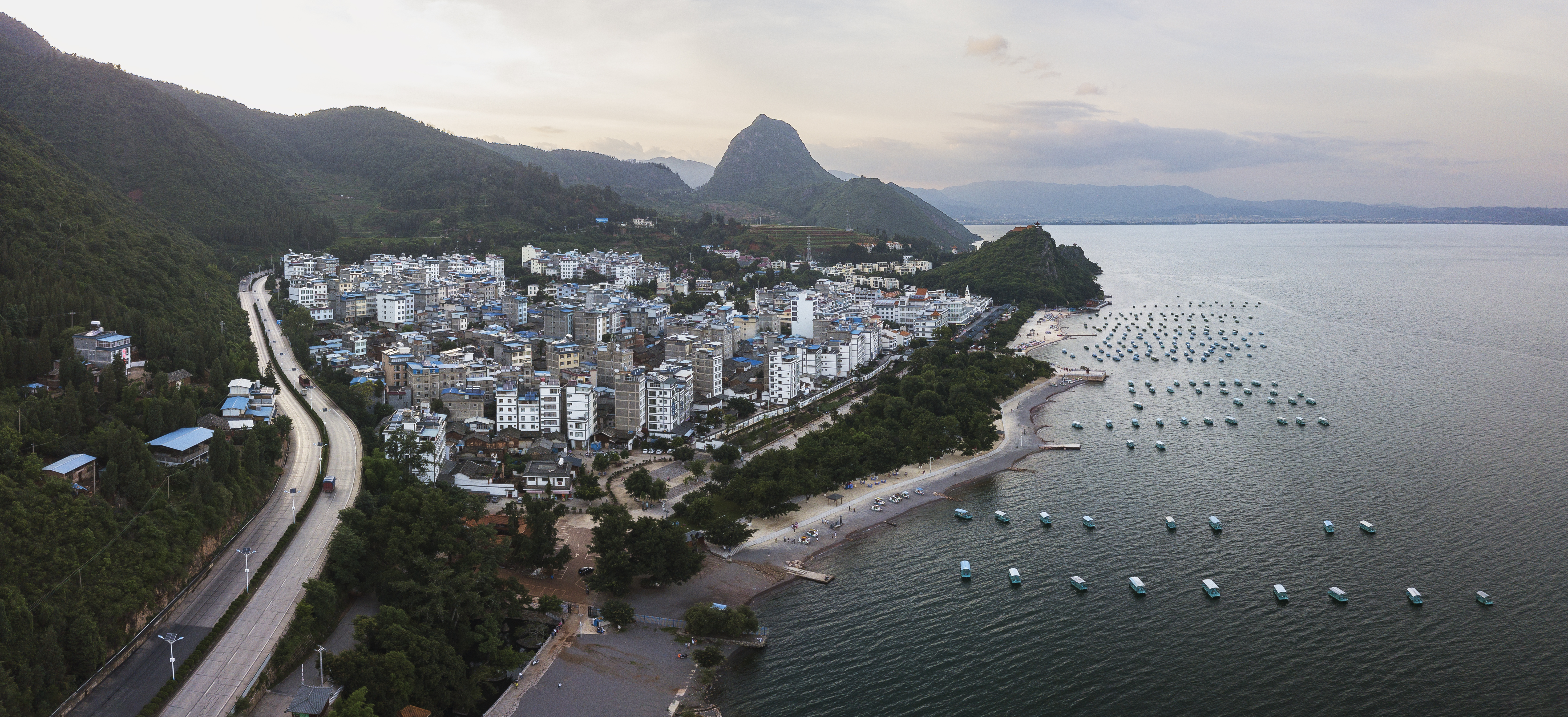 fuxian lake luchongcun aerial panorama 2018 yunnan china